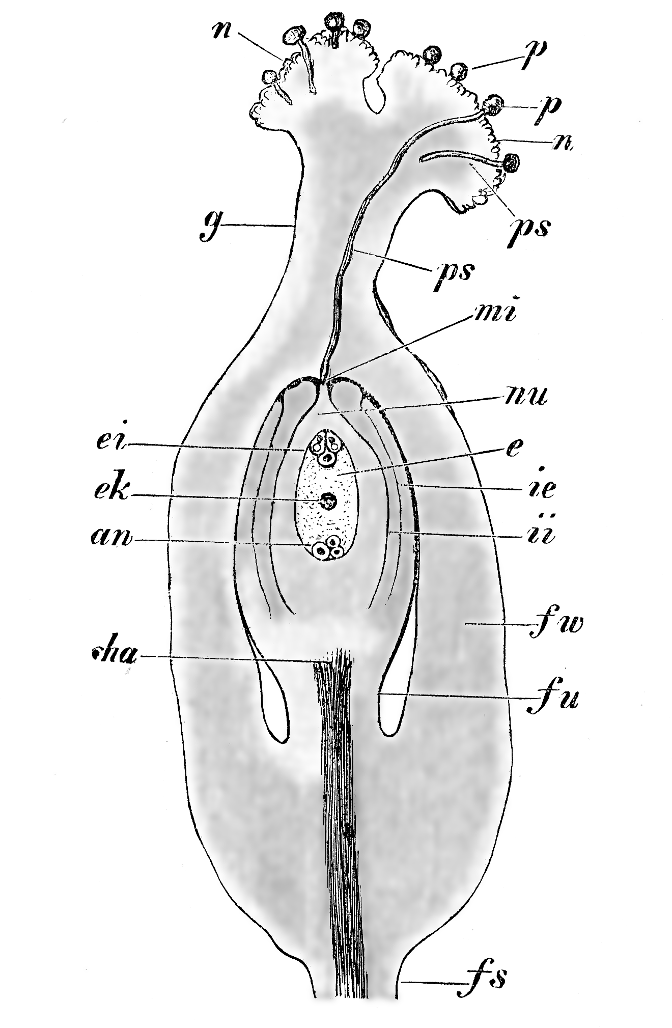 ovary of Fallopia convolvulus during fertilization. fs stalk-like base of it, fu funiculus, cha chalaza, nu nucellus, mi micropyle, ii inner, ie outer integument, e embryo sac, ek nucleus of it, ei egg cell with synergids, an antipodals, g style, n stigma, p pollen grains, ps pollen tubes. 48.